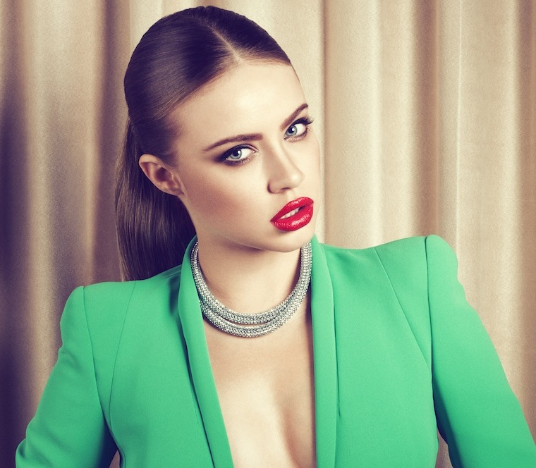 Xenia Tchoumitcheva